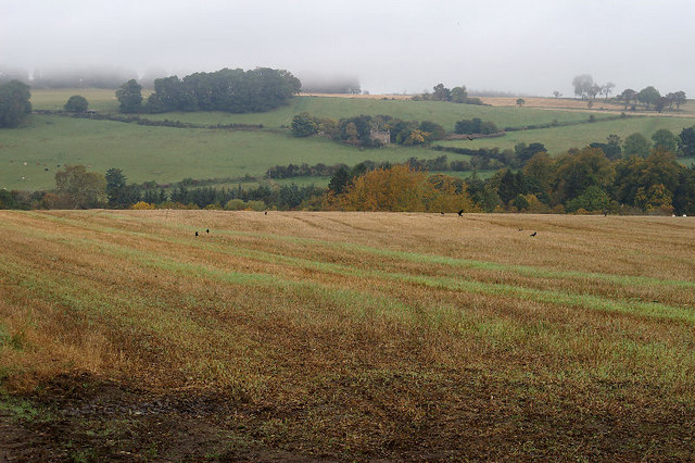 Ardblair Rooks in the stubble, the woodland around Ardblair Castle and the house of Hillbarns on the far hillside.